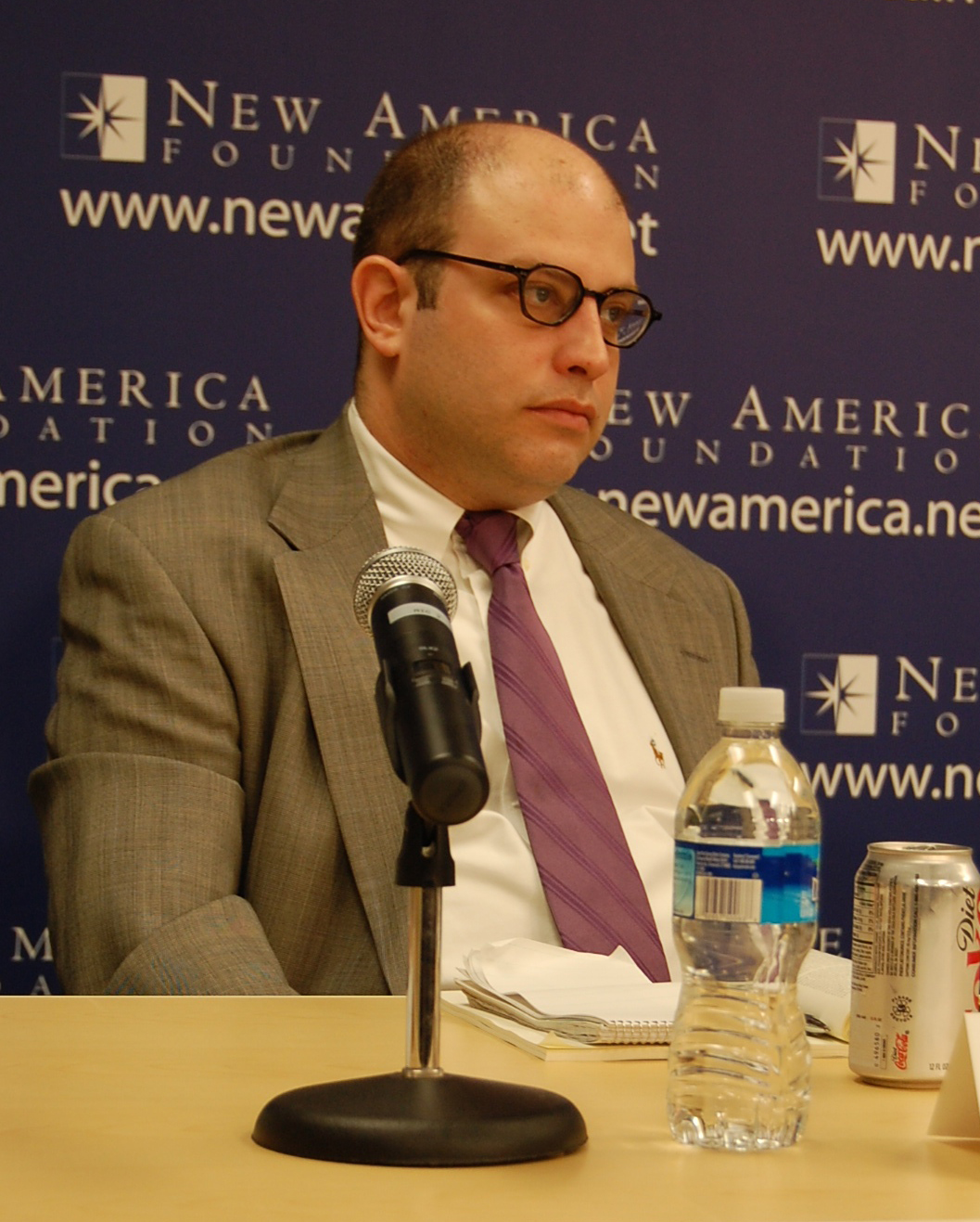 Eli Lake